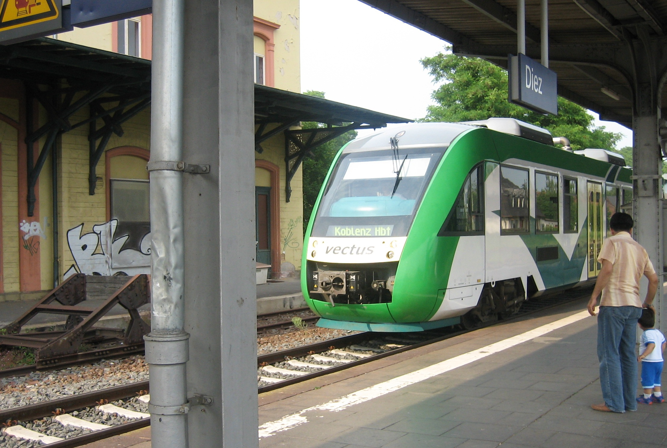 Station of Diez, Germany, with vectus train in background